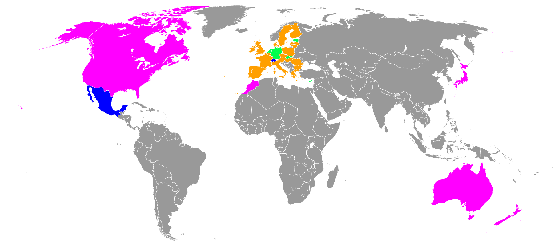 Signatories Signatories also covered by signature of the European Union Non-signatories covered by signature of the European Union Other countries eligible for signing the convention